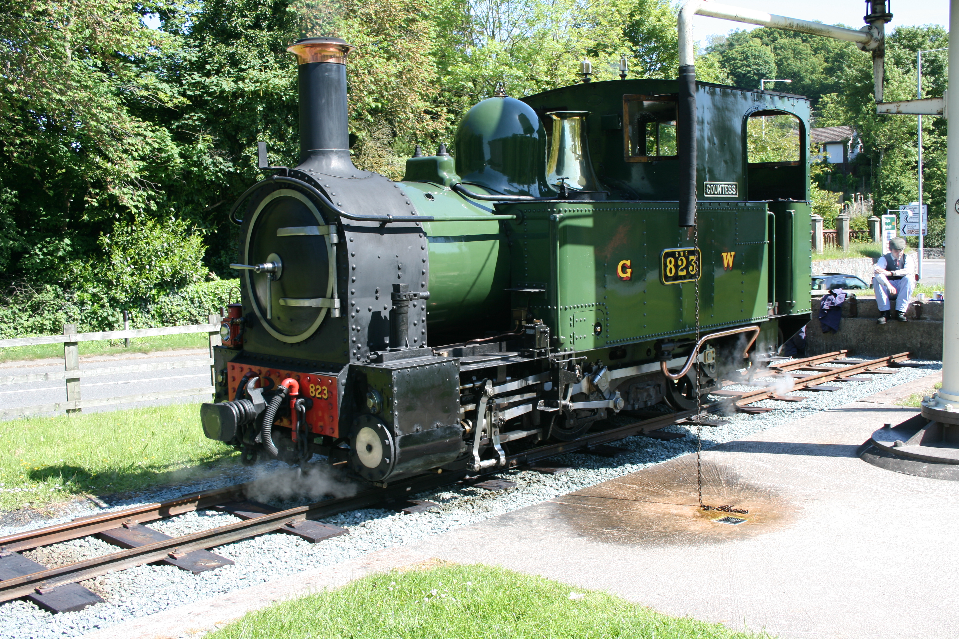 W&LLR engine The Countess at Welshpool.